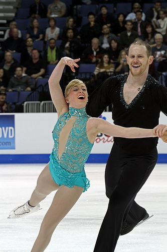 Caydee DENNEY and John COUGHLIN at the 2011 Skate America